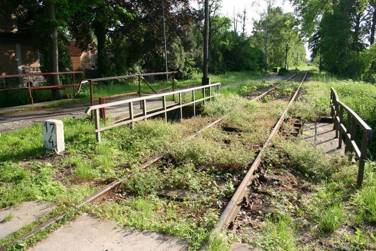 Suchacz - railway station.